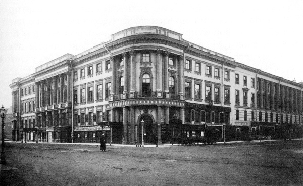 Saint Petersburg (Russia), Nevsky Prospekt. Photograph of Chicherin House around 1900.